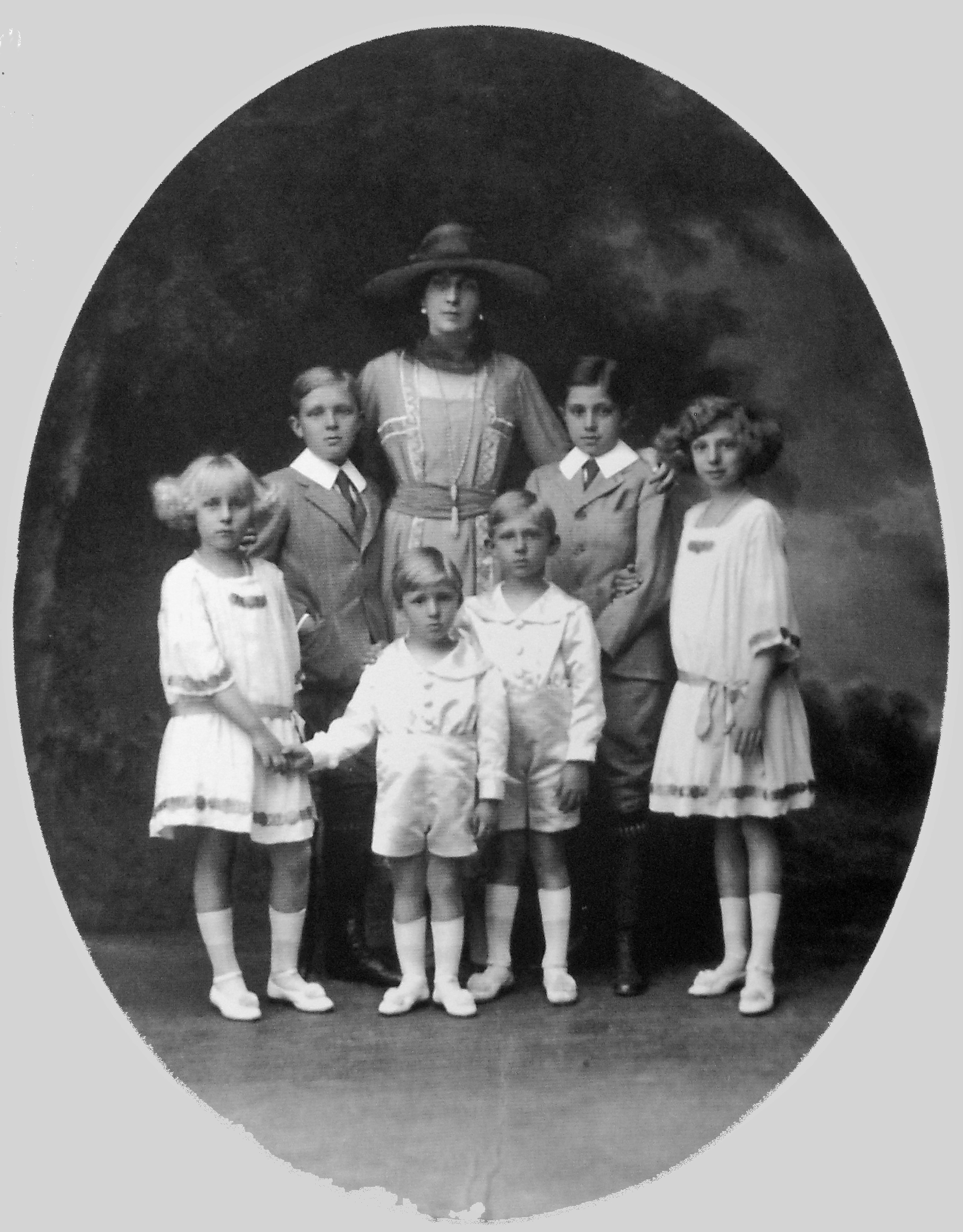 Queen Victoria Eugenia of Spain with her six children